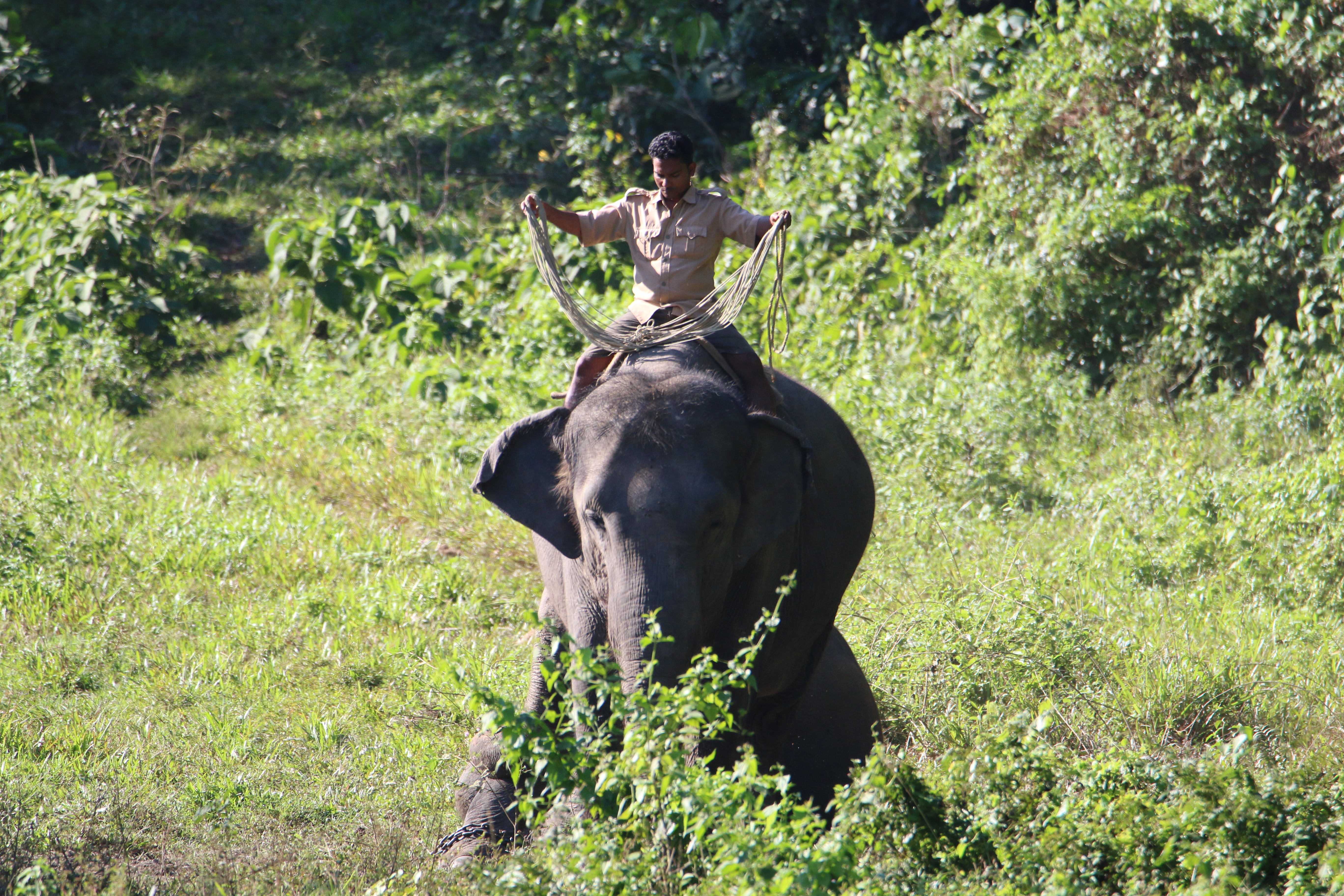 Koomkie Elephant of West Bengal Forest Department